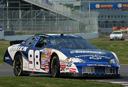 The 98 Dixien/OmniSource Chevrolet